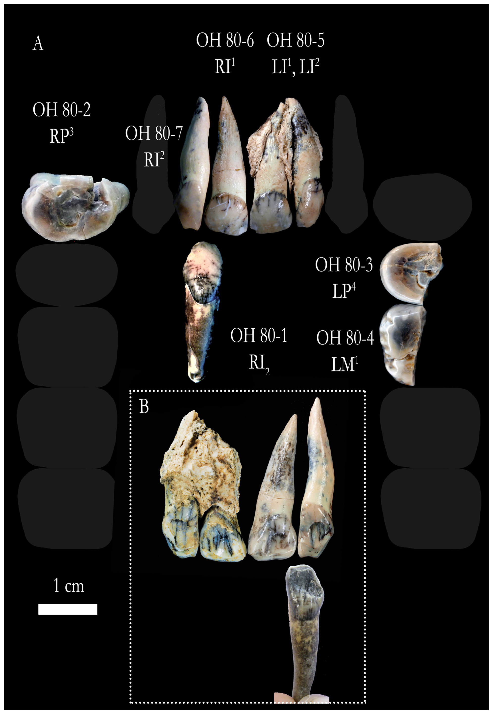 Figure 1. Hominin dental remains from Level 4 at the BK site. Teeth are shown in approximate anatomical position on a schematic dental arcade; anterior teeth are shown in labial view, postcanine teeth in occlusal view (A). Labial views of the anterior teeth are shown in (B). Photographs of individual teeth by J Trueba and MJ Ortega; composition by JL Heaton.